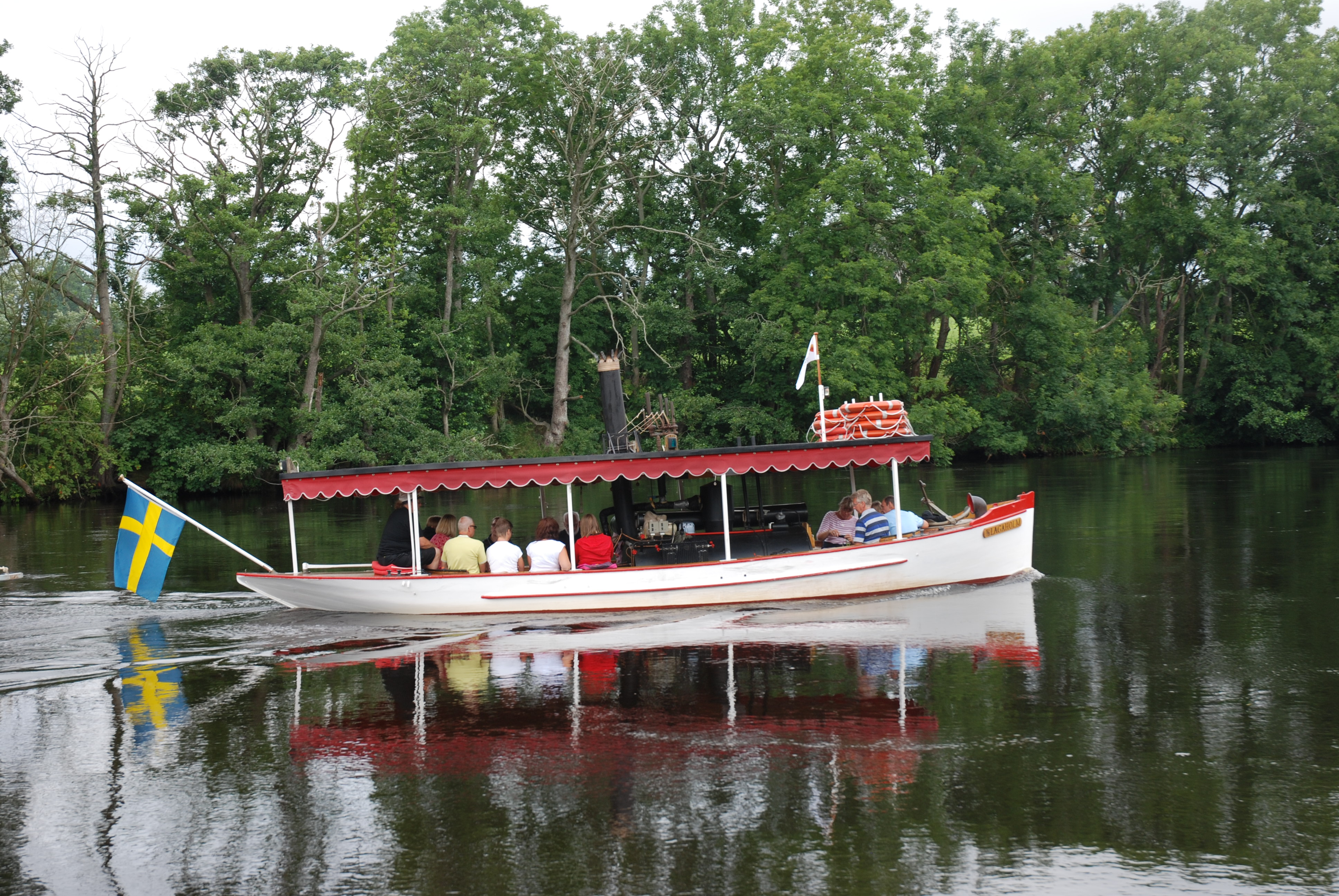 S/S Lagaholm on River Lagan, Laholm, Sweden